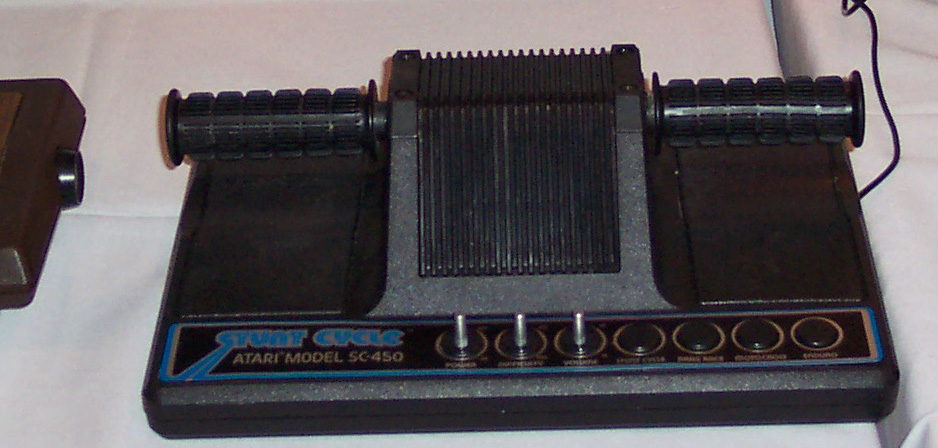 Atari video game console Stunt Cycle SC-450